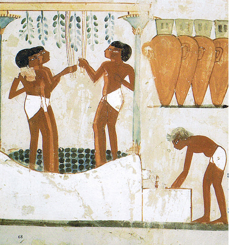 Papyrus stem columns holding up Grapevine arbor